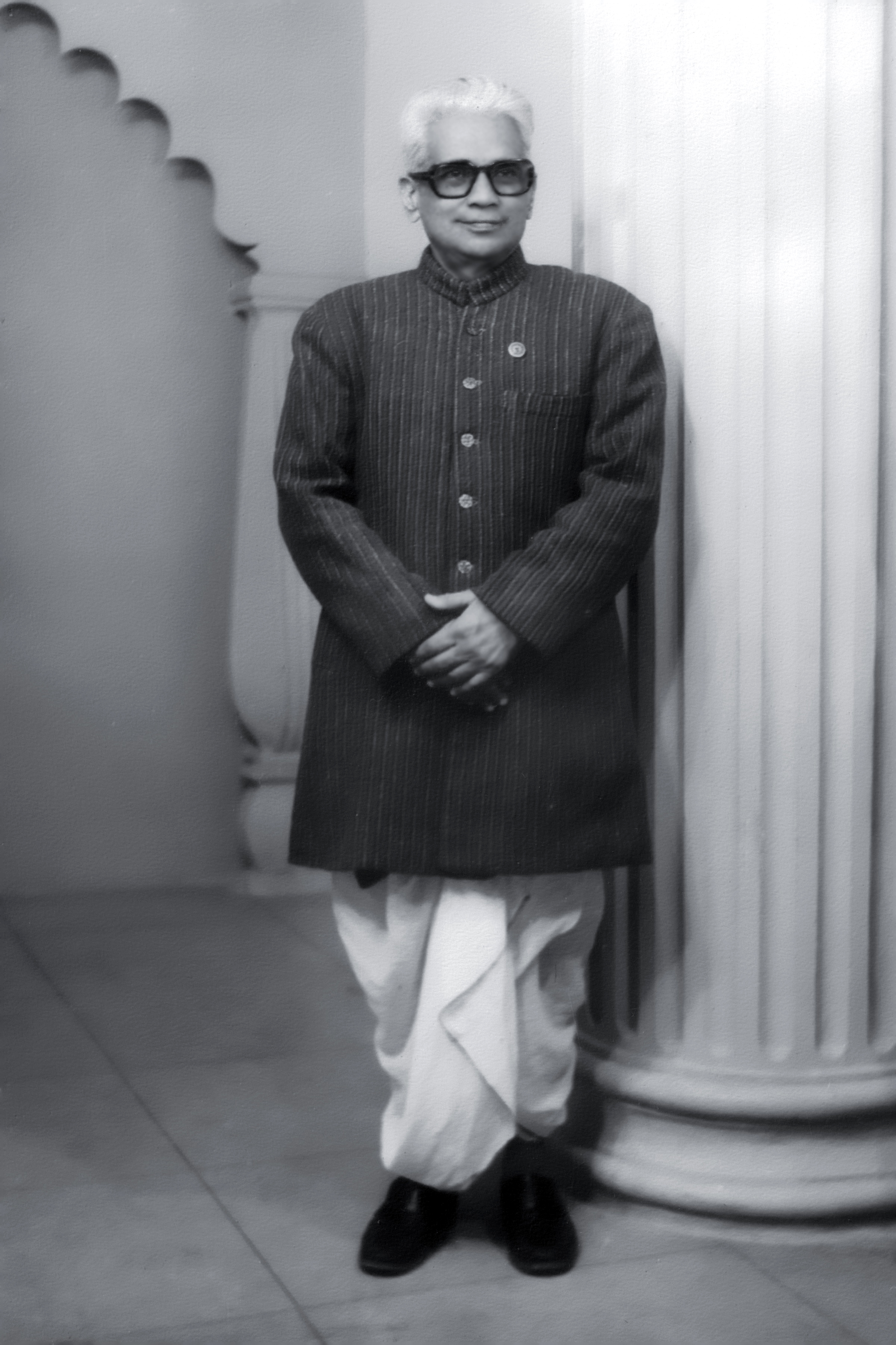 Pandit Ram Kishore Shukla at Vindhya Kothi in 1982